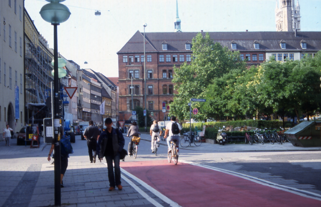 Cycling route in Munich downtown